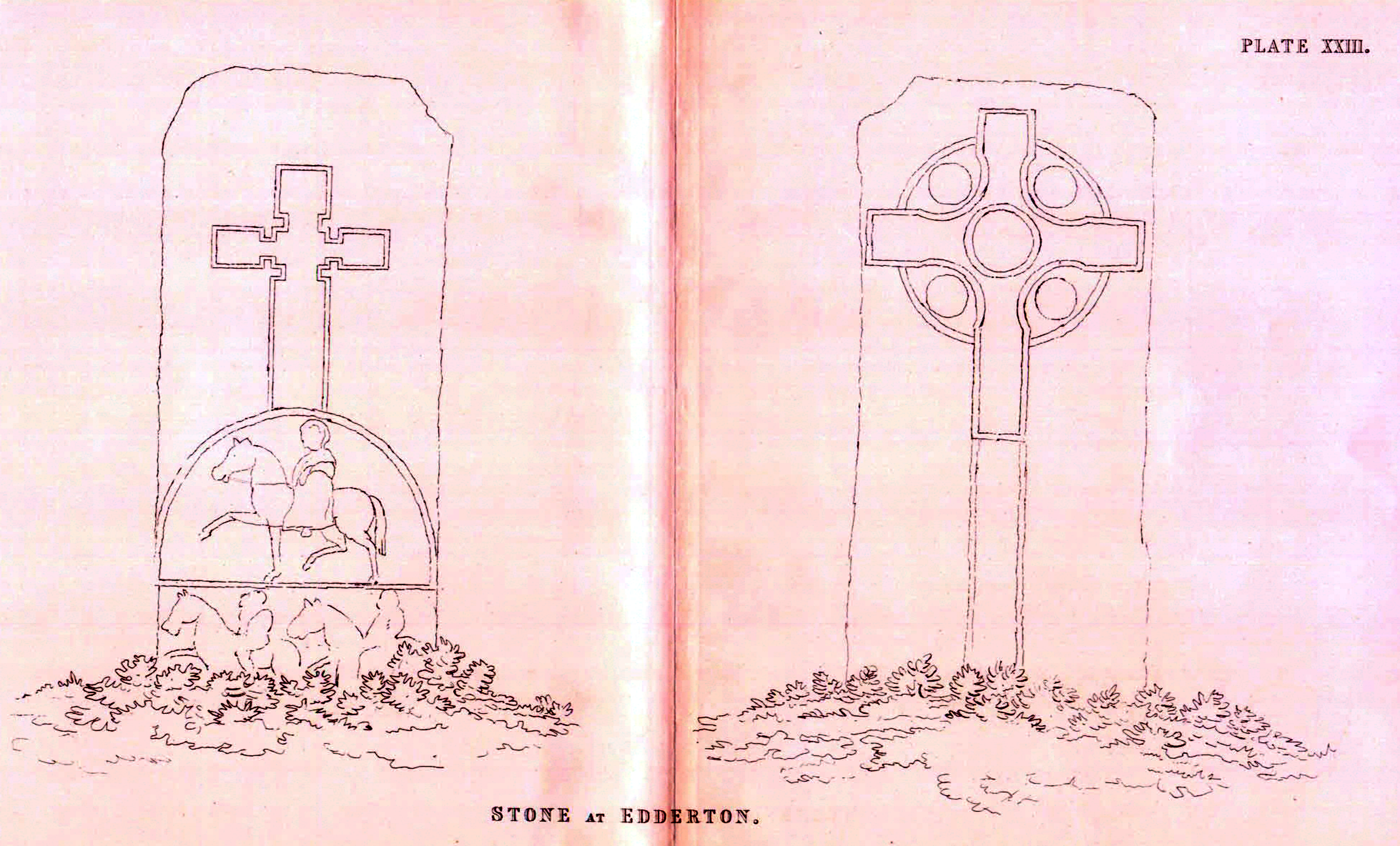 This plate is taken from "A Short Account of some Carved Stones in Ross-shire, accompanied with a series of Outline Engravings" by Charles Carter Petley and published in Archaeologia Scotica, vol IV (1857) Description. It shows the Edderton Stone, a pictish cross slab.